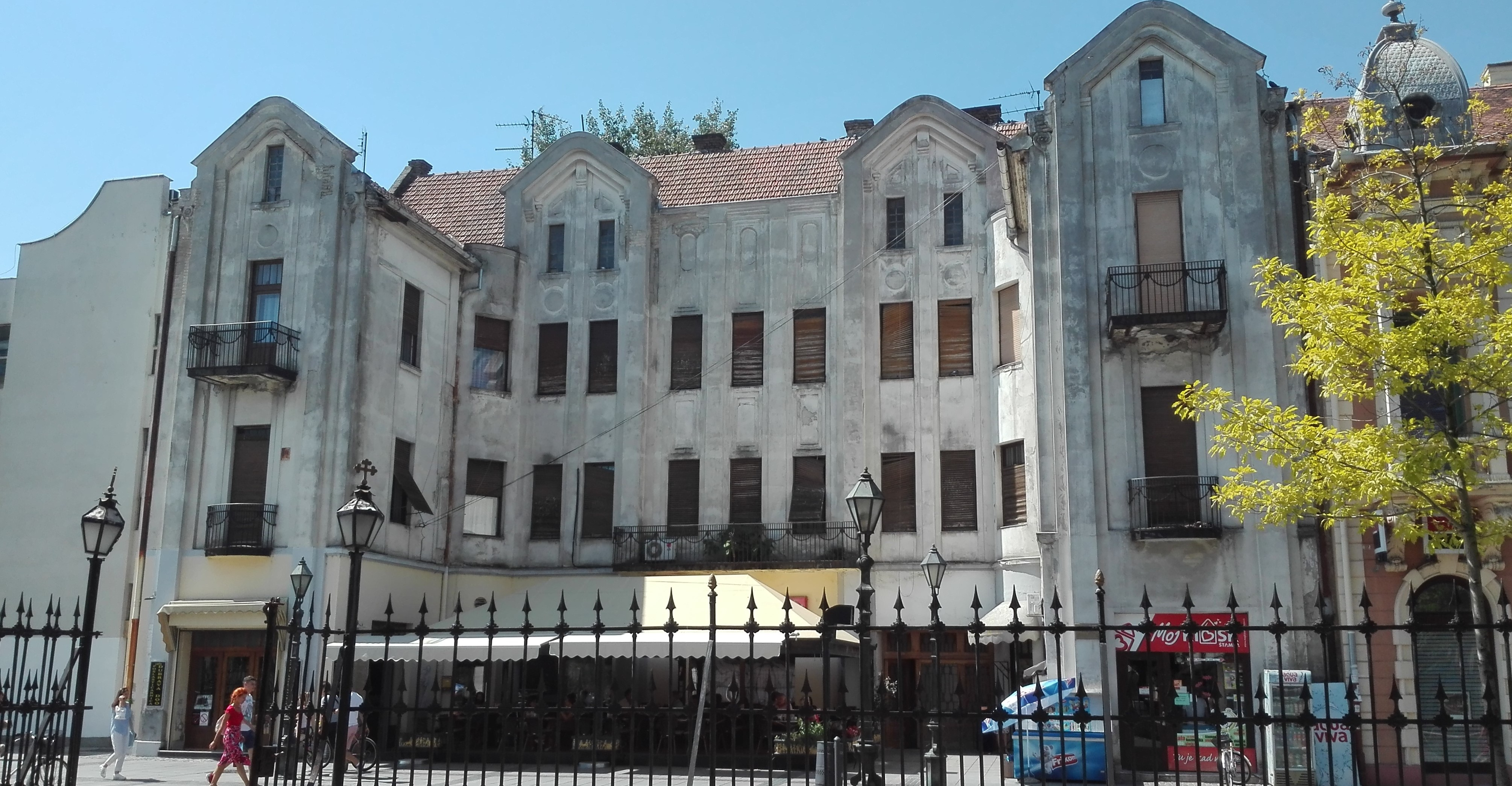 Building in Kralja Petra I. street, number 10 in Sombor